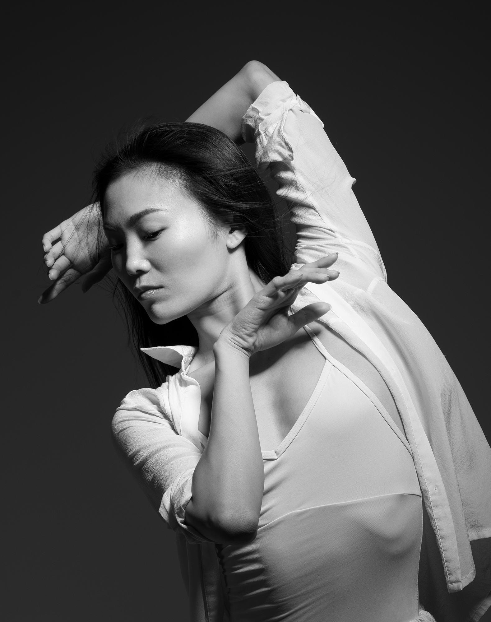 Yuka Ebihara - first soloist of the Polish National Ballet; fot. / photo: Piotr Leczkowski, 2017